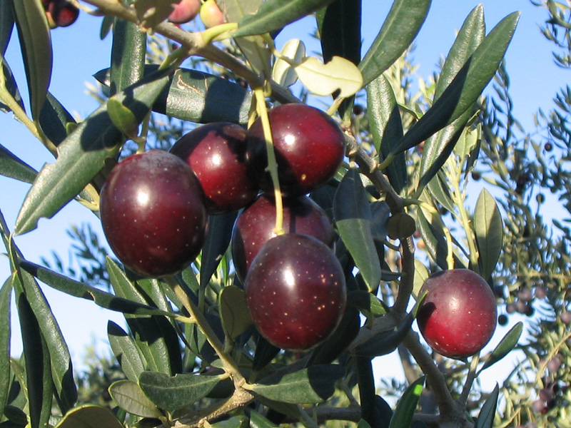 Own photo, taken on island of Brač, Croatia.